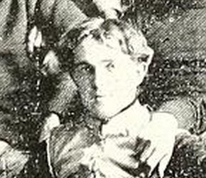 W. H. Lyon